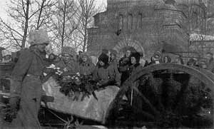 Transferring ashes of the general-lieutenant Kappel